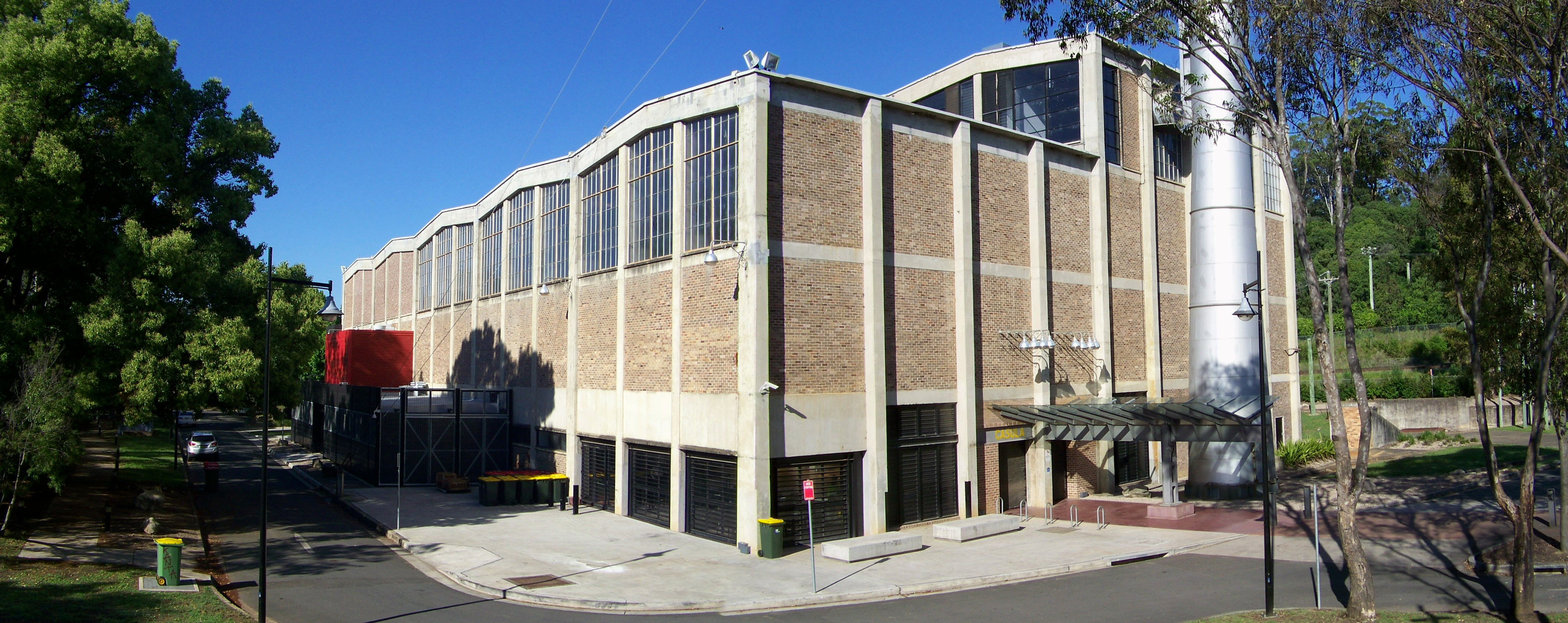 Casula Powerhouse Arts Center